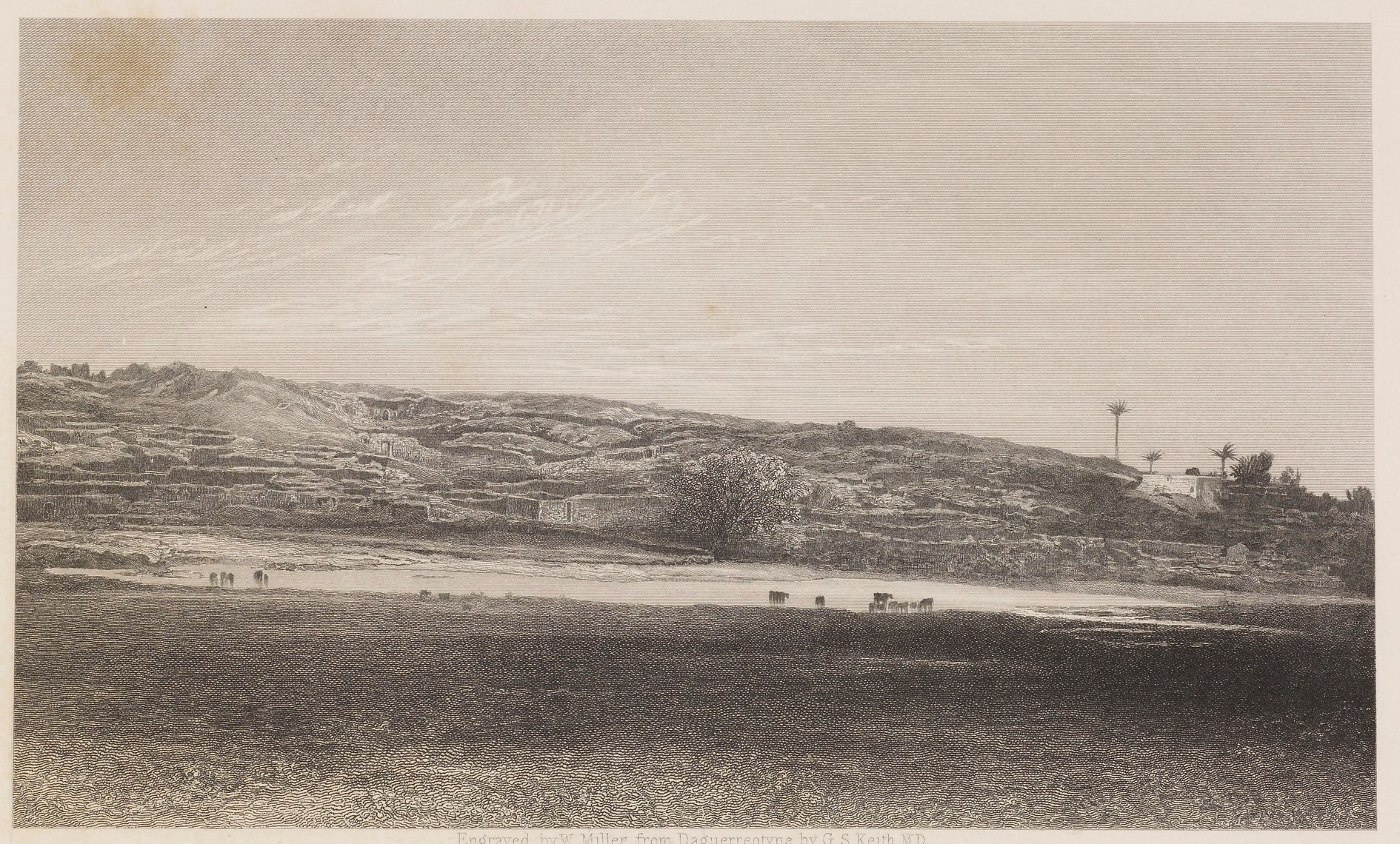 Ken and Jenny Jacobson Orientalist Photography Collection